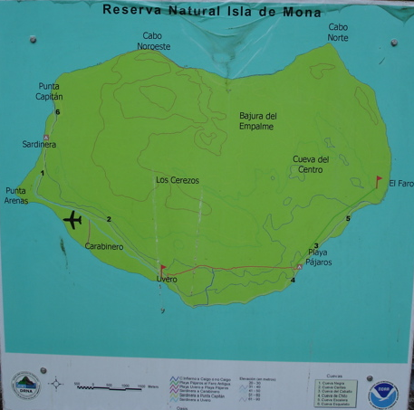 scan of NOAA map (public domain)